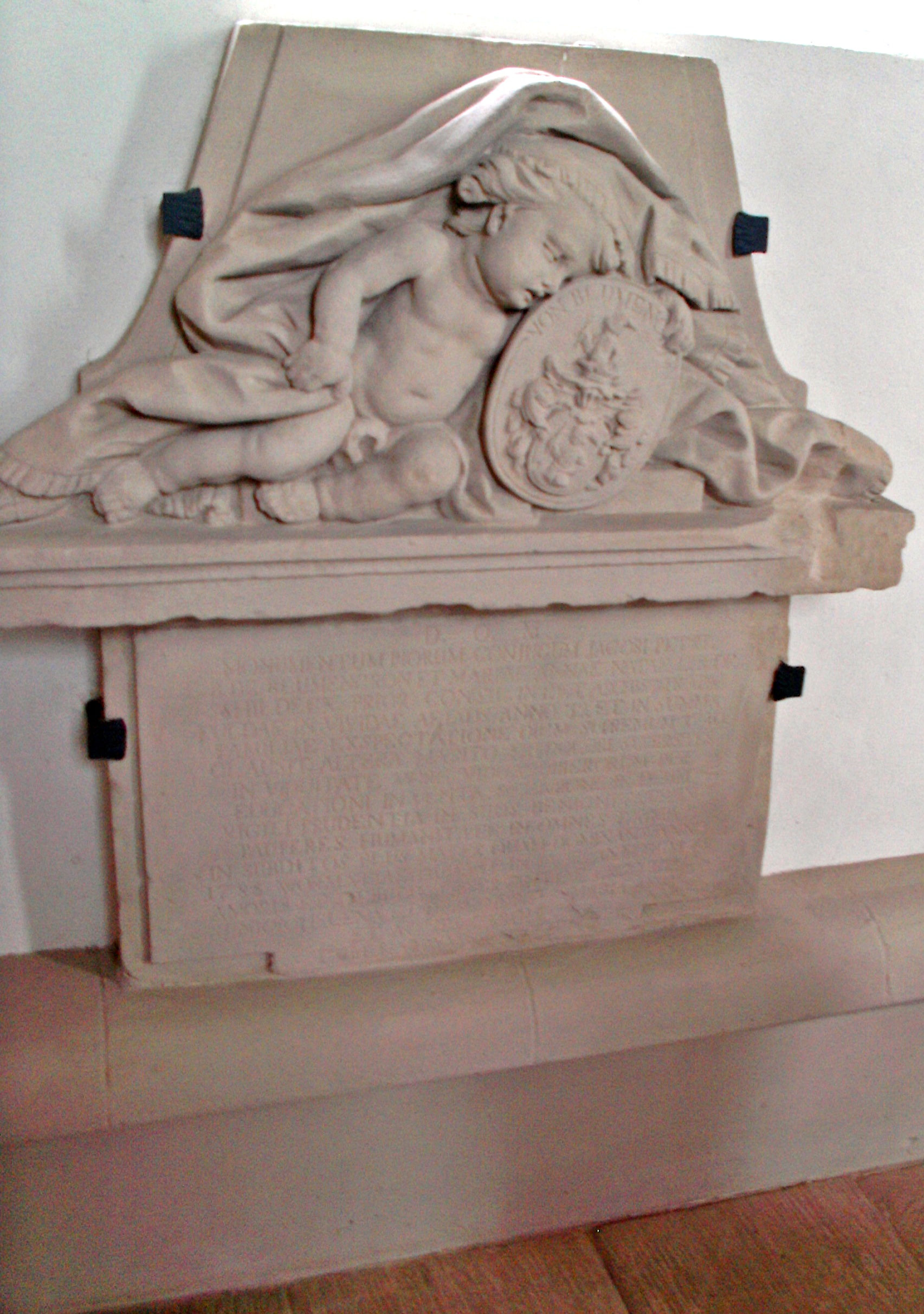 Epitaph Blumencron, Prot. Kirche Wattenheim